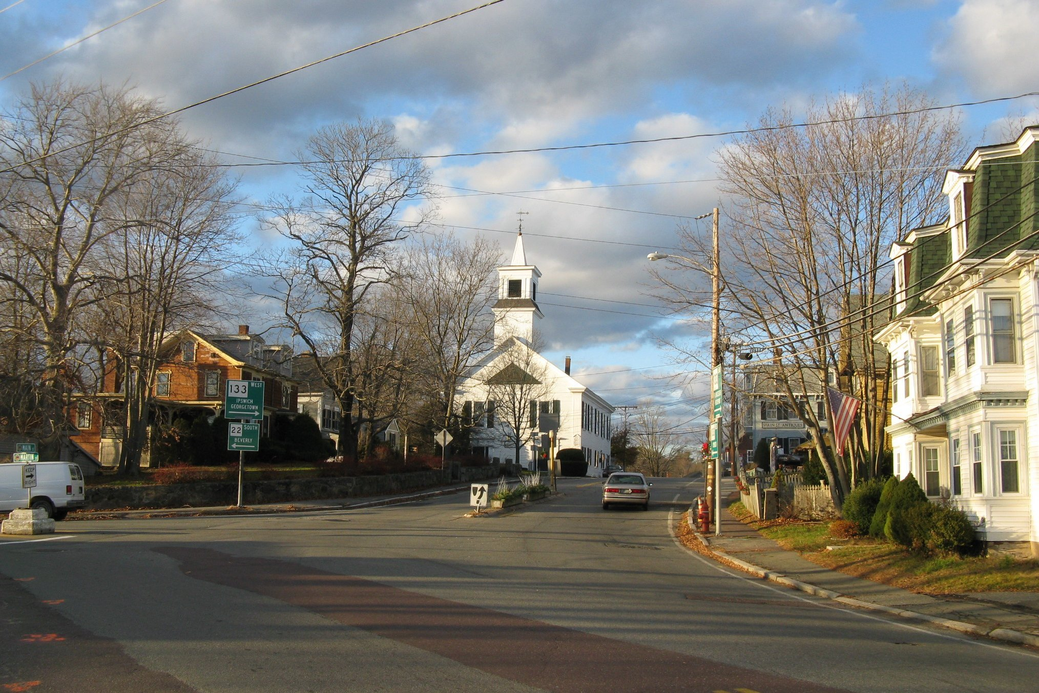 Looking north on Main St, Essex Massachusetts, December 2009 - First Congregational Church on the left